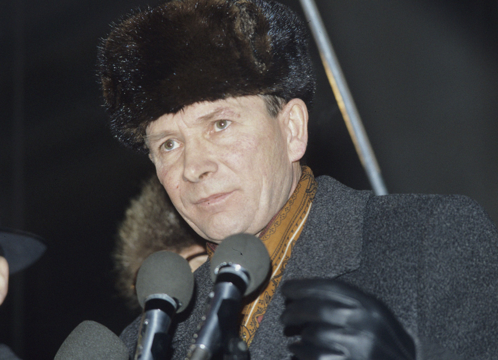 “Chairman of the Democratic Party of Russia (DPR) Nikolai Travkin”. Chairman of the Democratic Party of Russia (DPR) Nikolai Travkin at a rally, which was held under the slogan "Disintegration of the Soviet Union today will lead to disintegration of Russia tomorrow" on Manezhnaya Square.